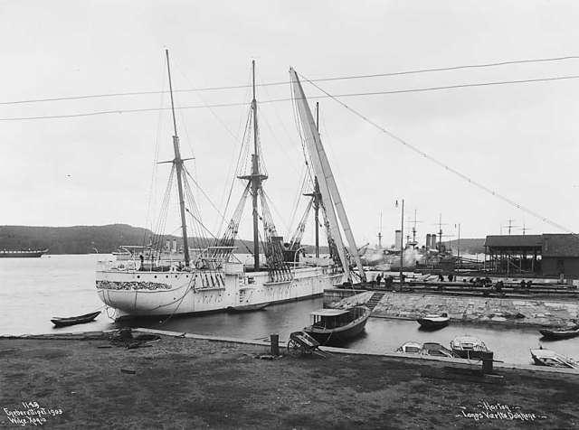 The Norwegian steam corvette Ellida being rigged at Karljohansvern naval shipyard in Horten, Norway.